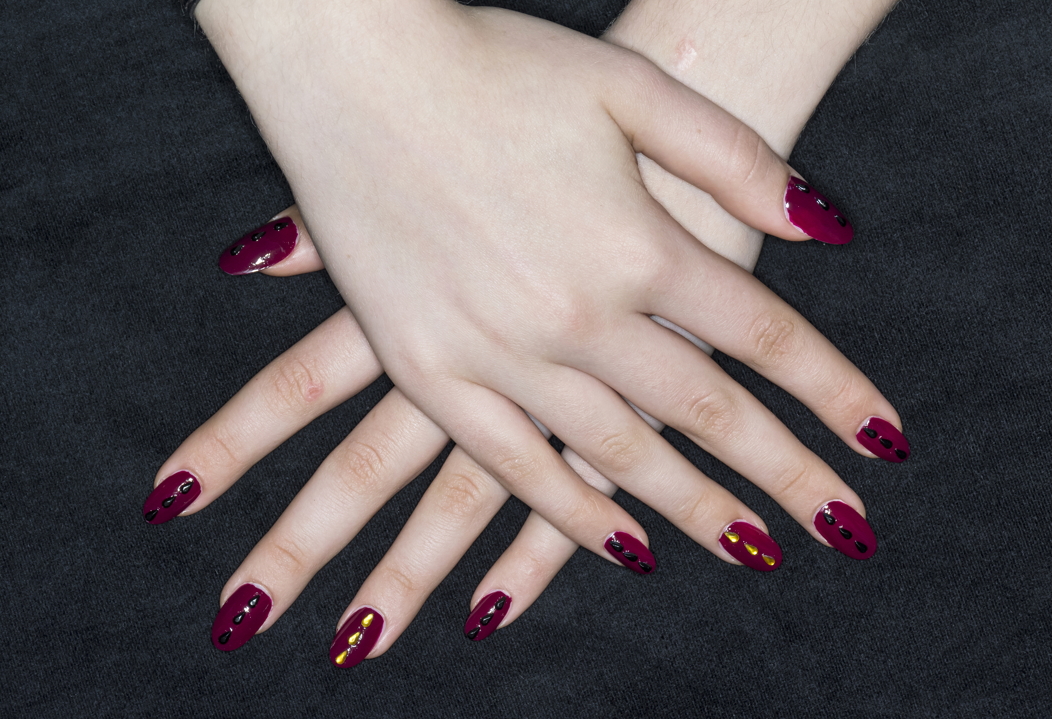 Artificial nails